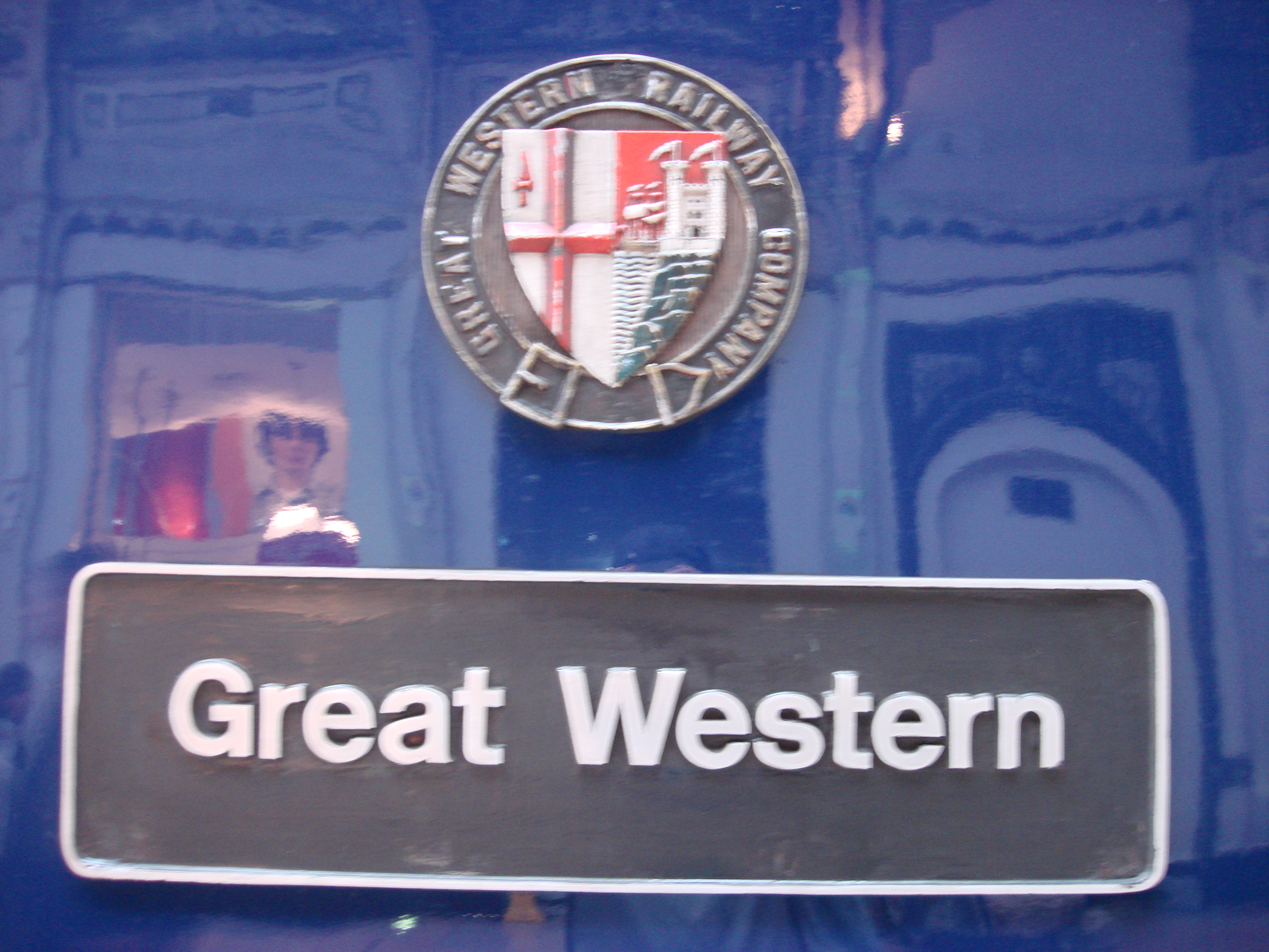 Namplate on number 43185